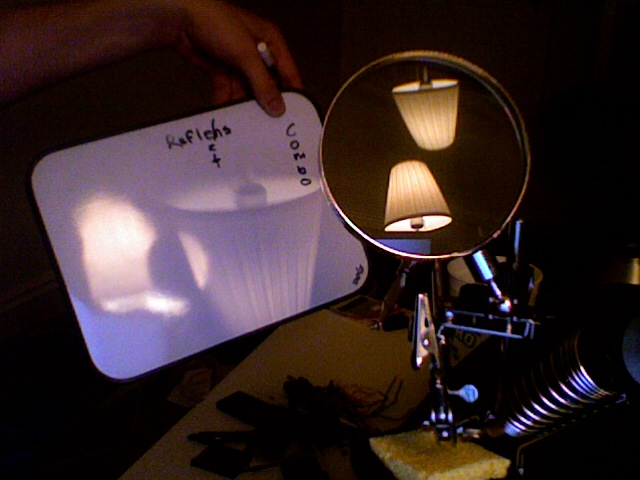 This image has three visible reflections and one visible projection of the same lamp; two reflections are on a biconvex lens.